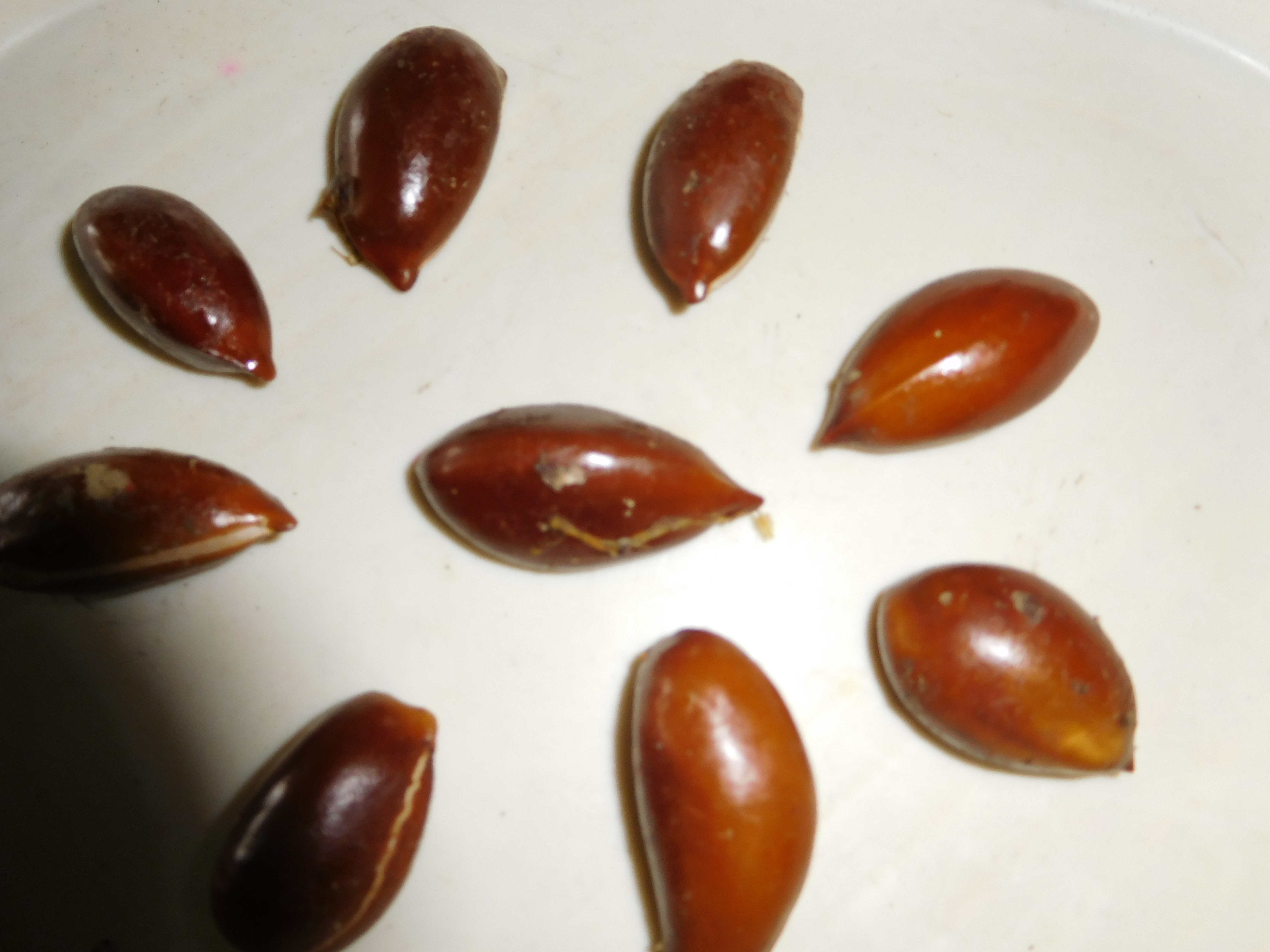 These are seeds of Mahua tree mostly found in north India.